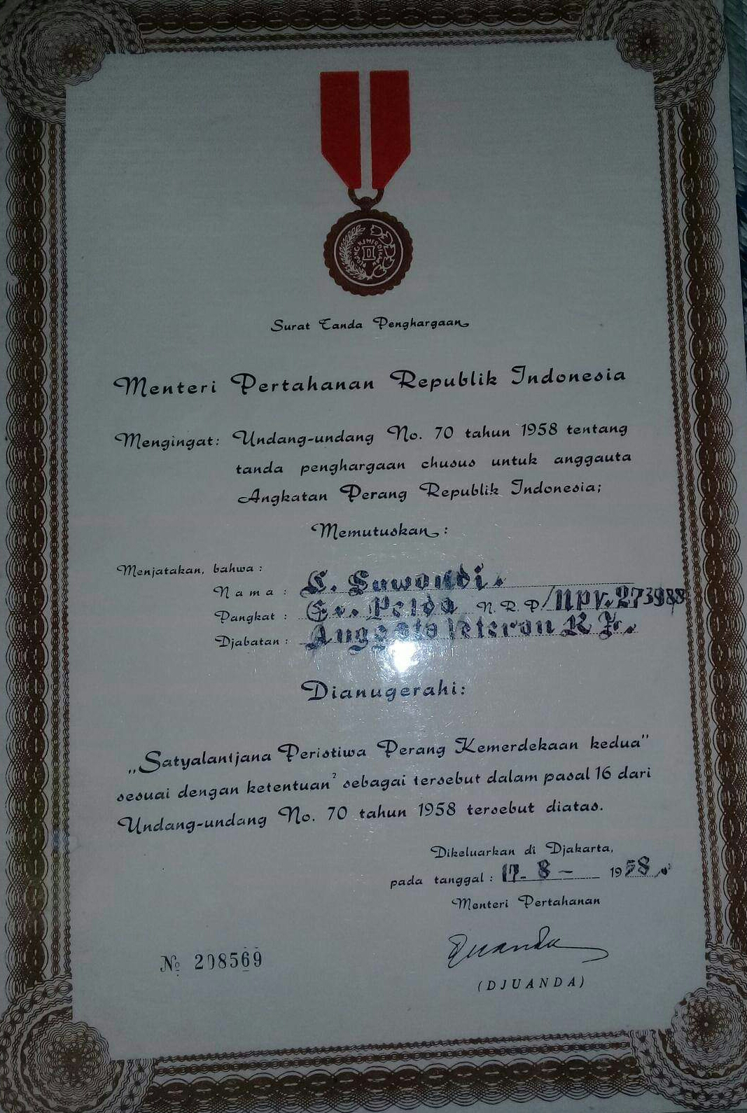 Suwandi Satya2